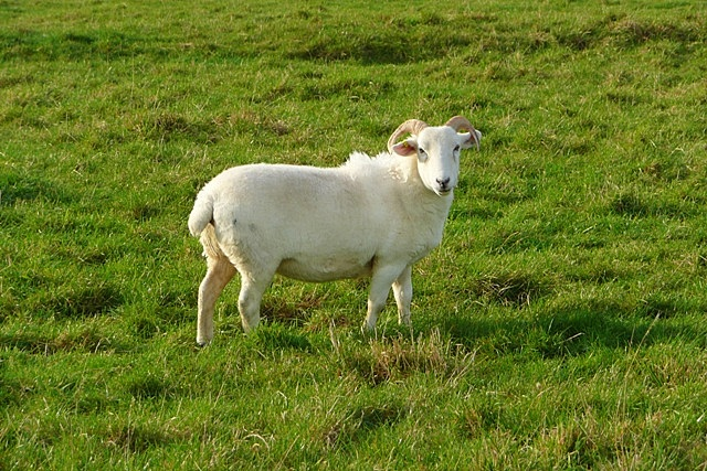 Sheep at North Standen One of a field full of sheep with very distinctive horns. They are the Wiltshire Horn breed, and both rams and ewes have horns. There is a society with a very informative website here